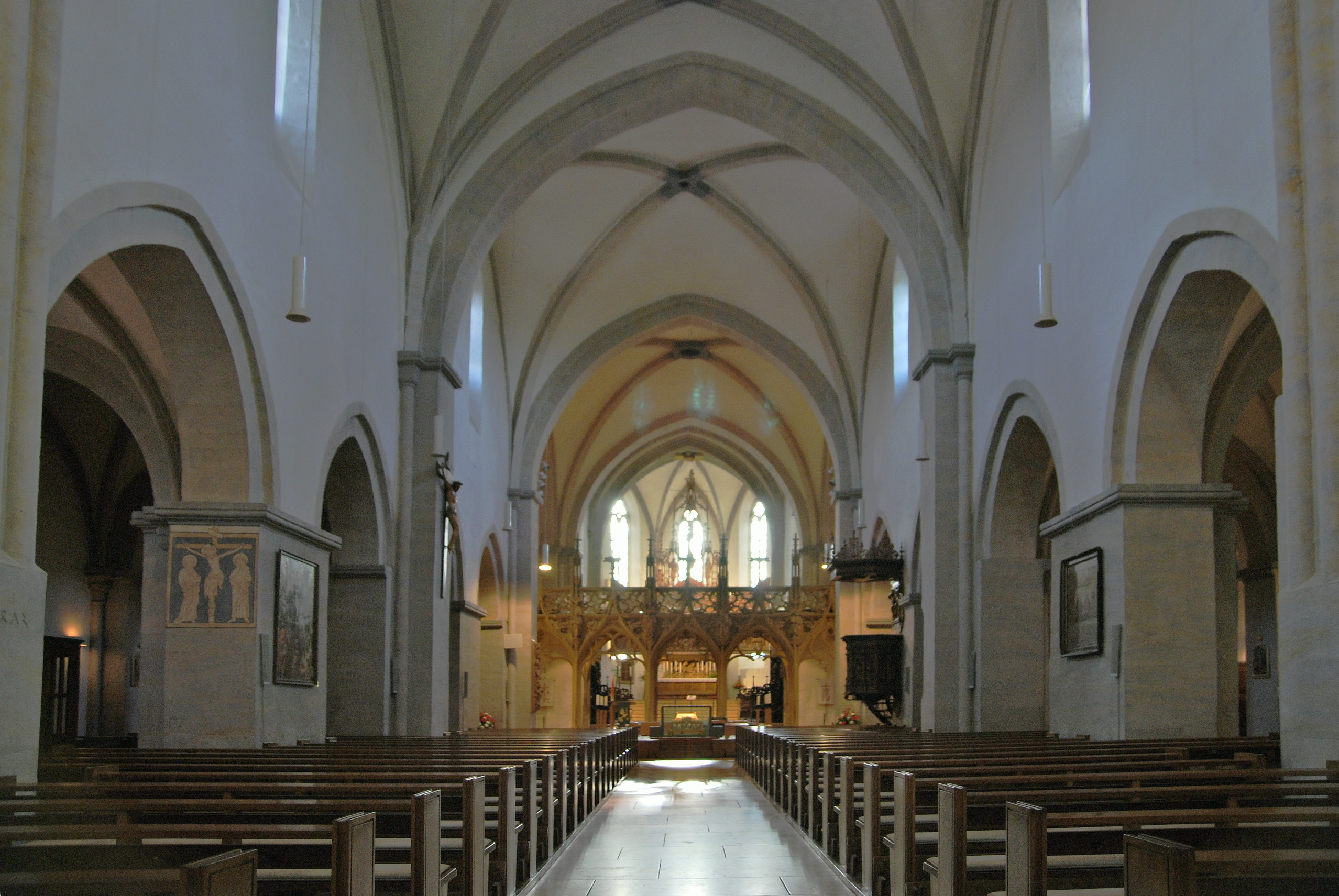 Breisach Minster. Nave with view to choir.